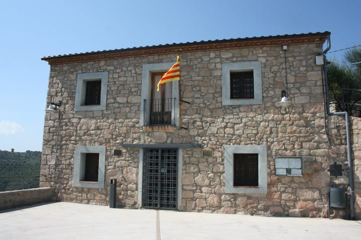 City council of Rubió, Anoia, Catalonia.